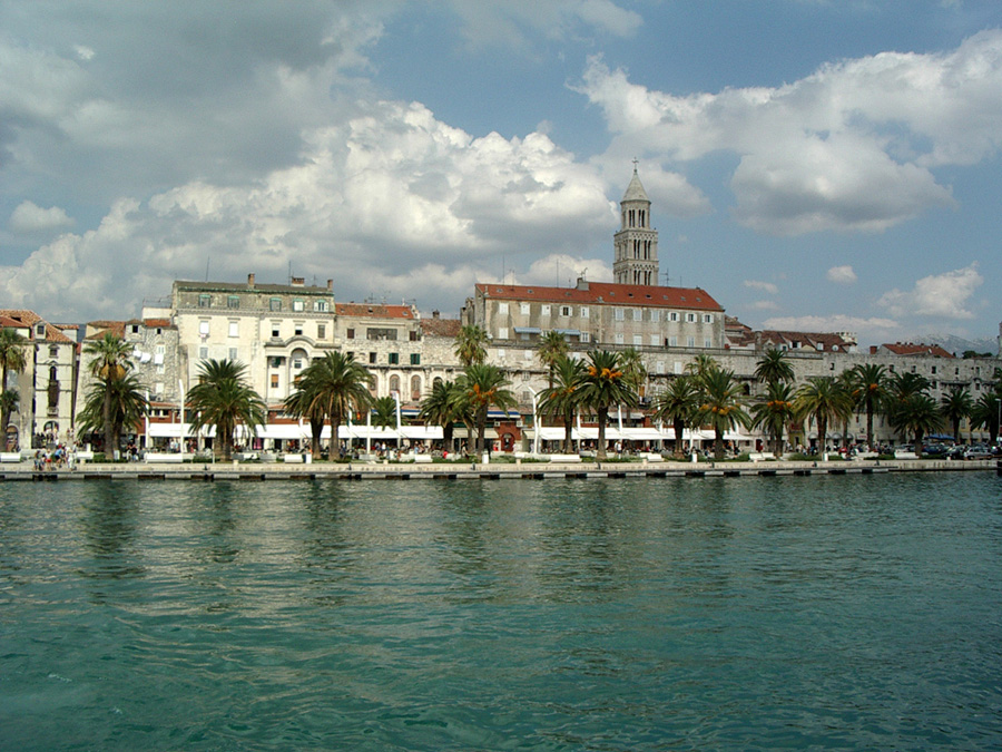 Promenade "Riva" of Split from boat, Croatia.